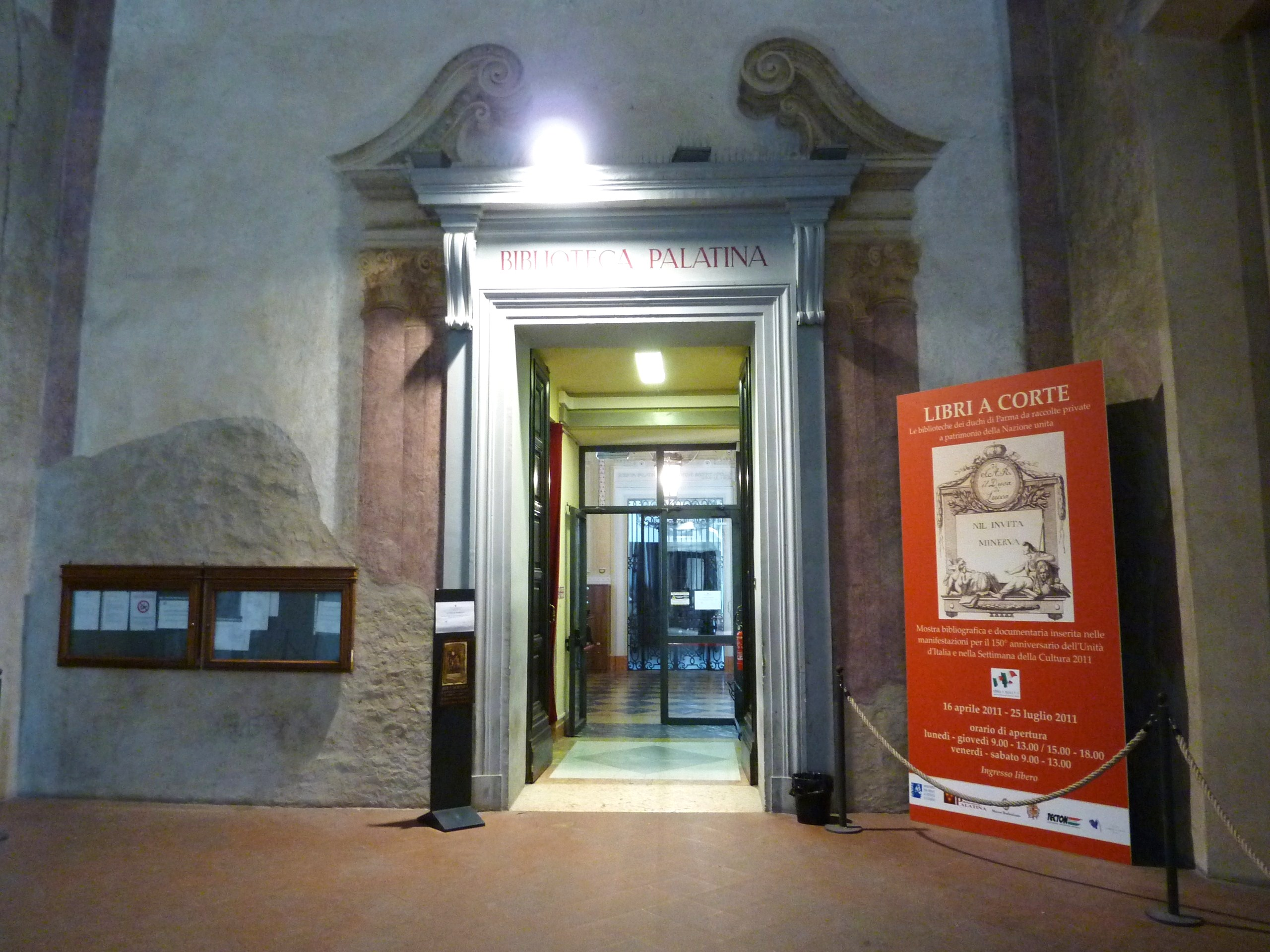 The entry of the Biblioteca Palatina in Parma.